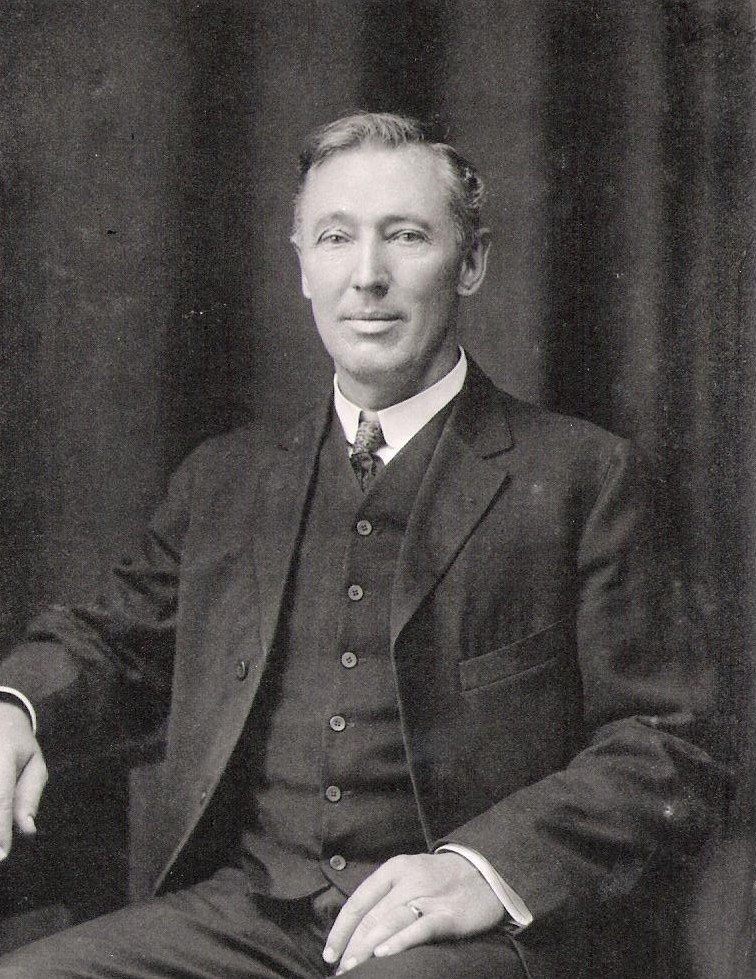 South Dakota Attorney Joe Kirby